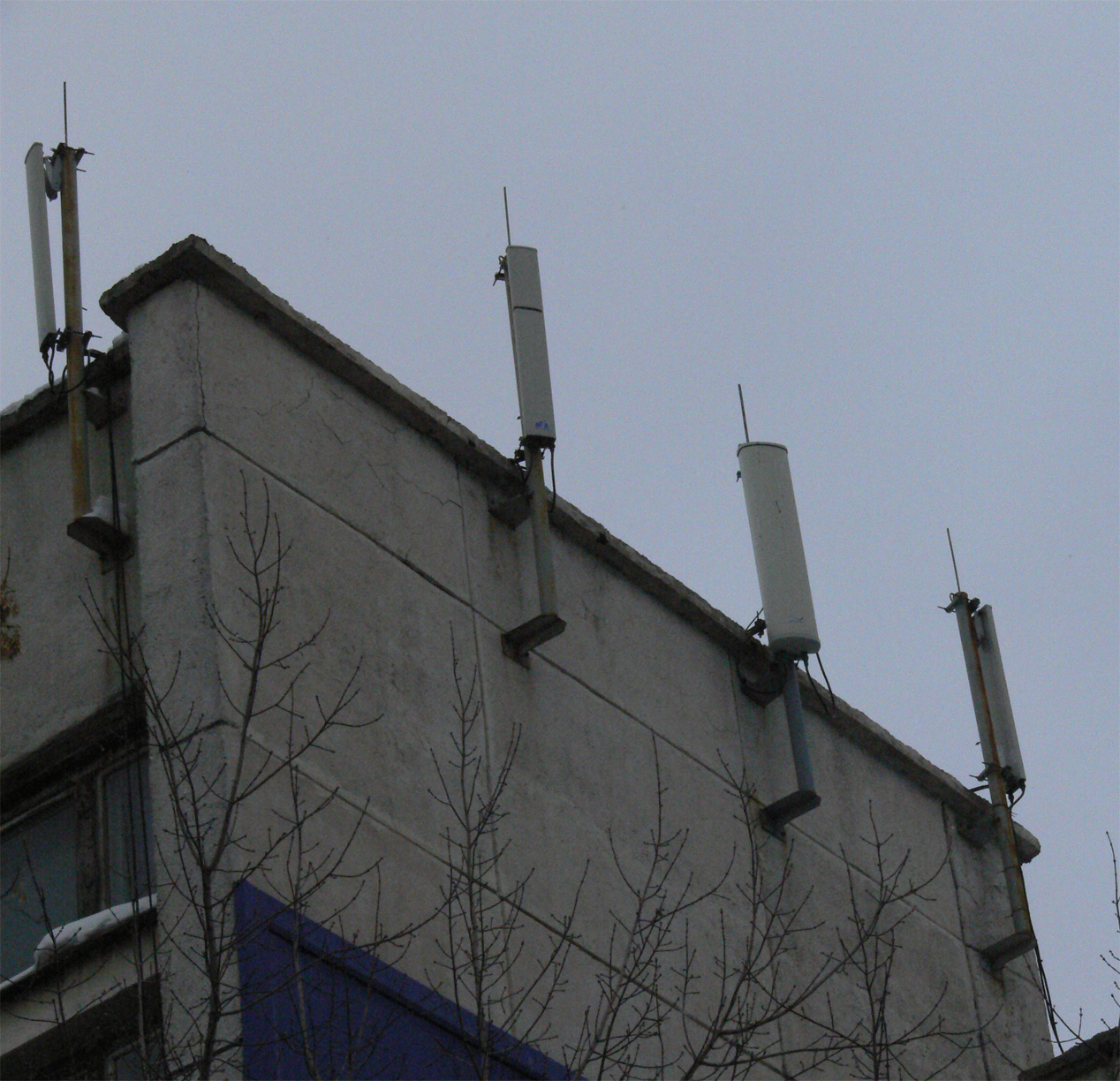 Alternative installation.